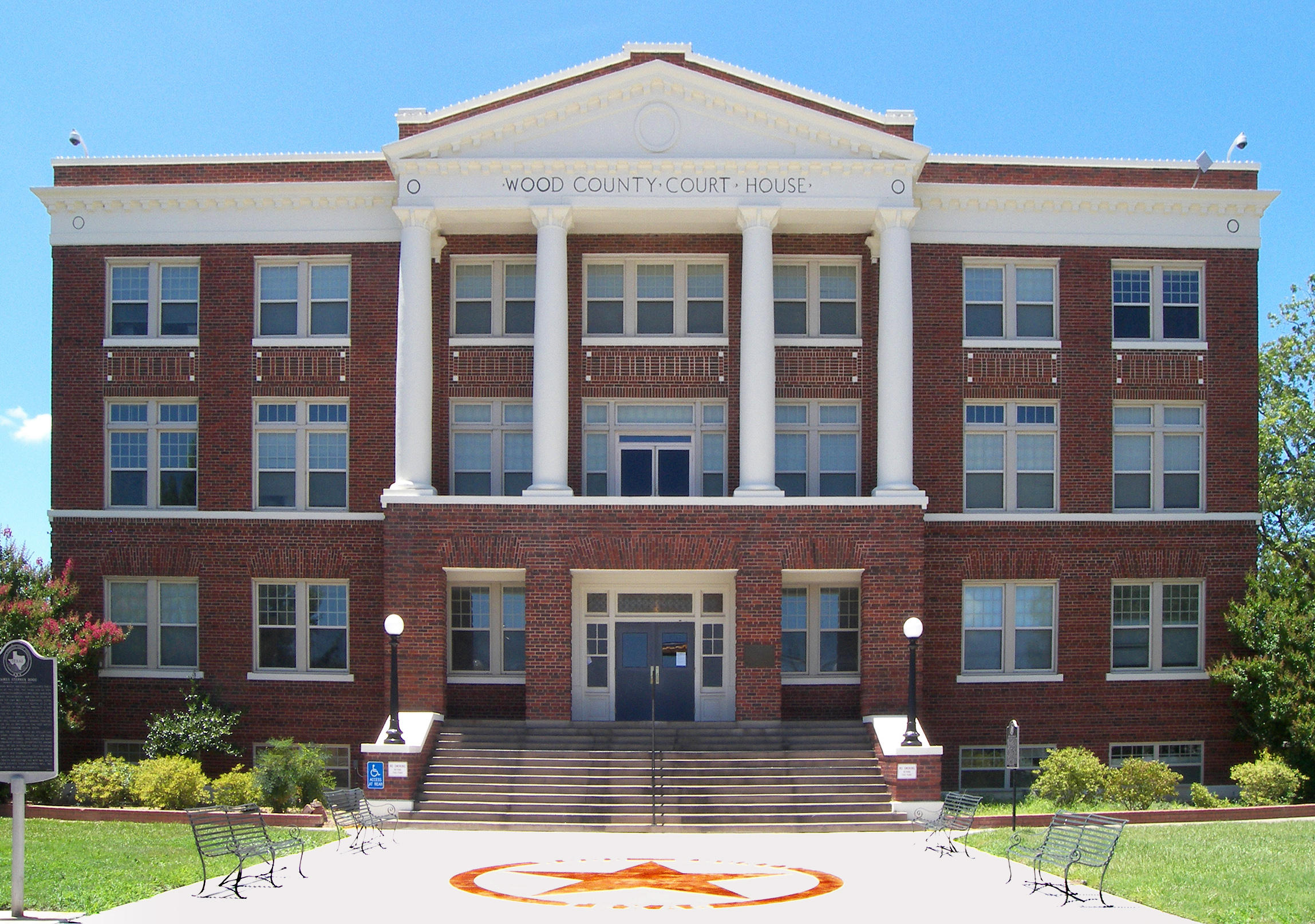 The Wood County Courthouse located in Quitman, Texas, United States. The courthouse was designated a Recorded Texas Historic Landmark in 2003.